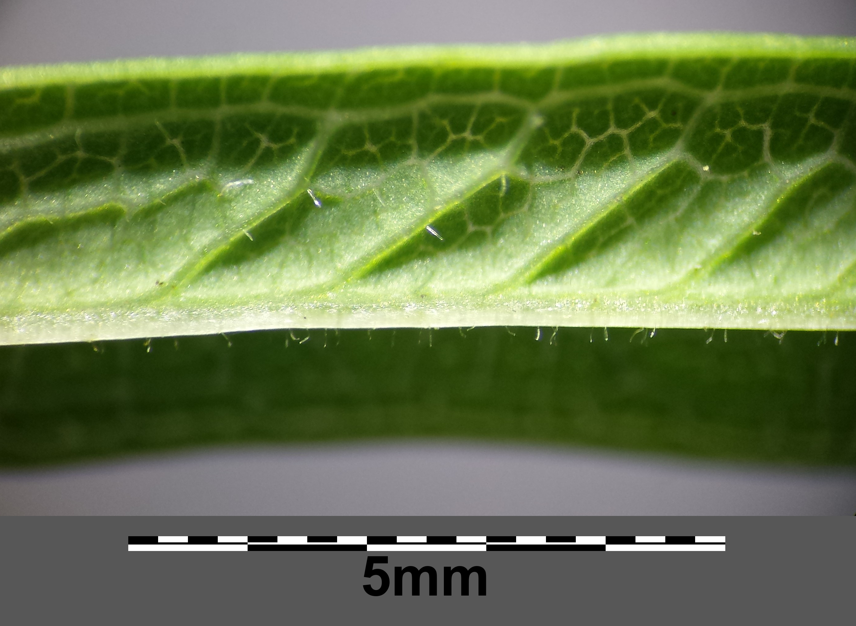 Bottom side of leaf with hairs Taxonym: Thalictrum lucidum ss Fischer et al. EfÖLS 2008 ISBN 978-3-85474-187-9 Location: Rohrwald, district Korneuburg, Lower Austria - ca. 250 m a.s.l. Habitat: Wet meadows